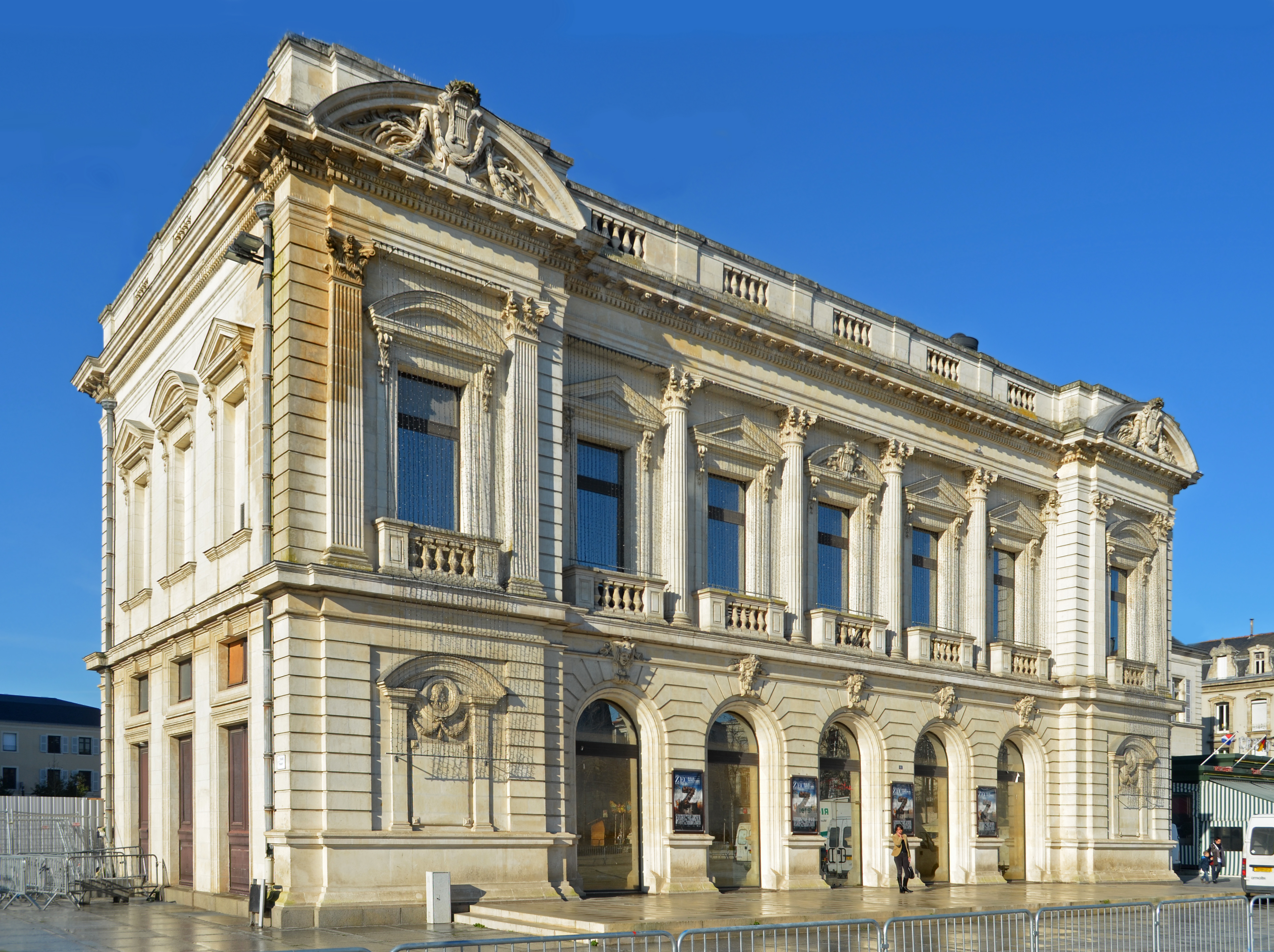 City theatre of Cholet - (Maine-et-Loire, France)